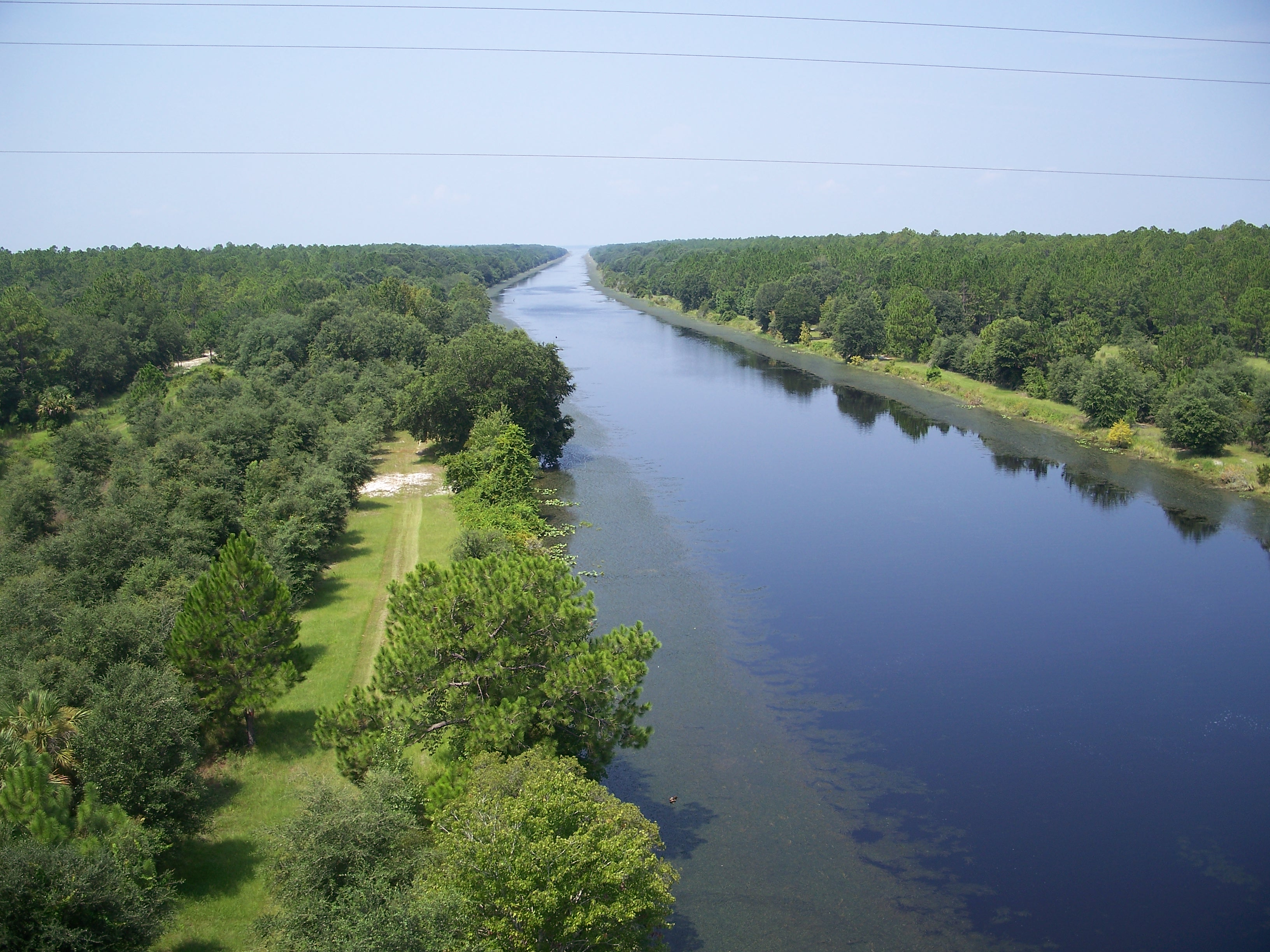 Cross Florida Barge Canal, looking west from the SR 19 bridge south of Palatka, Florida